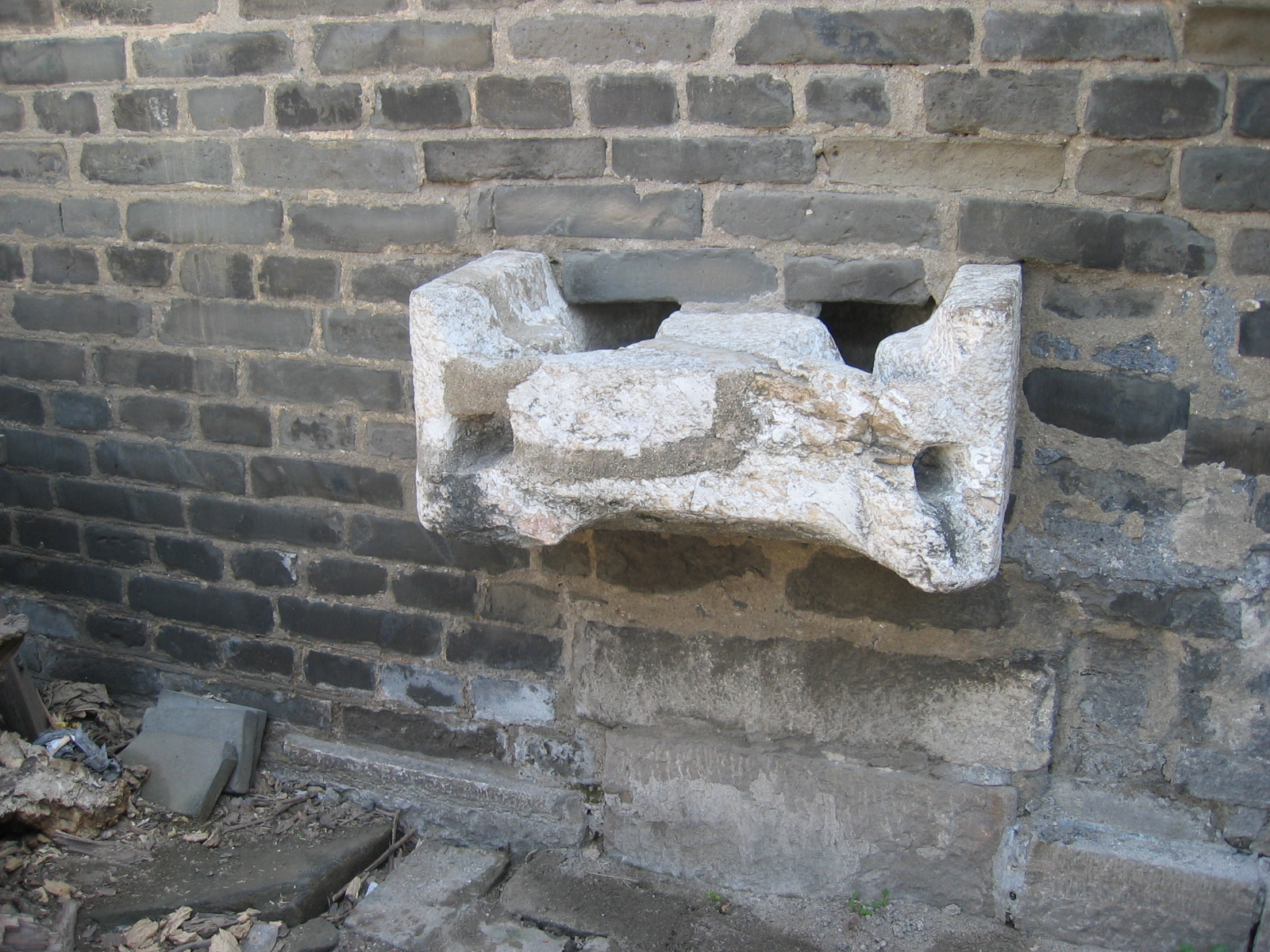 Photograph of a water outlet through a wall in the Kong Family Mansion, Qufu, Shandong, China.